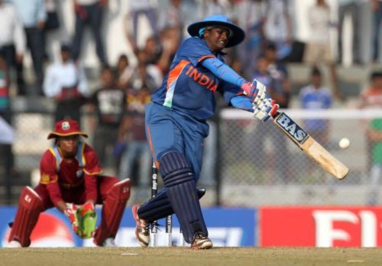 Thirush Kamini batting for INIDA